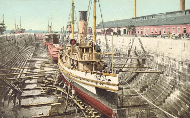 Dry dock at the Portsmouth Naval Shipyard, Kittery, Maine. Congress approved construction of the dry dock in 1900.